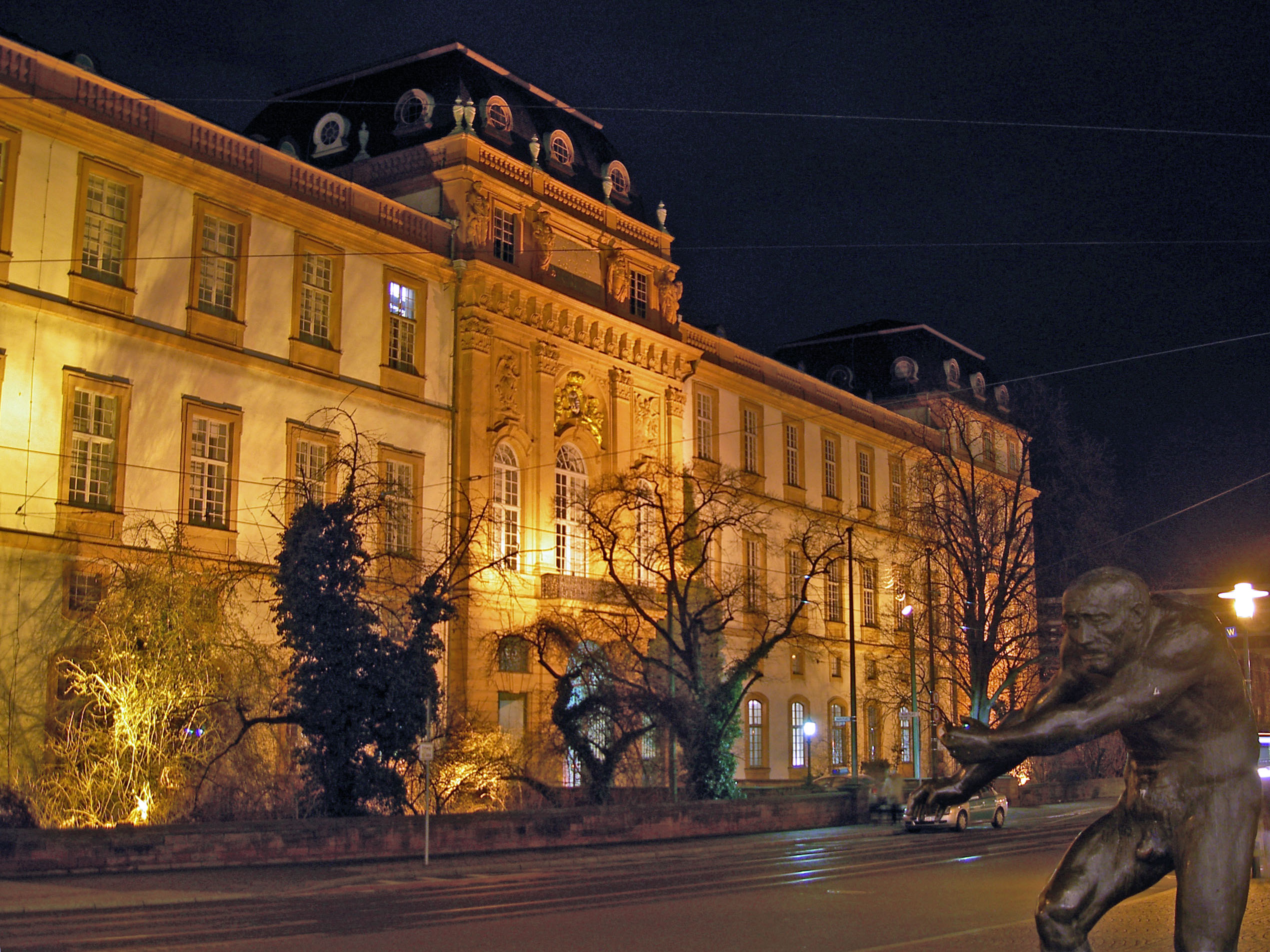 Marketplace Castle, Darmstadt, Germany